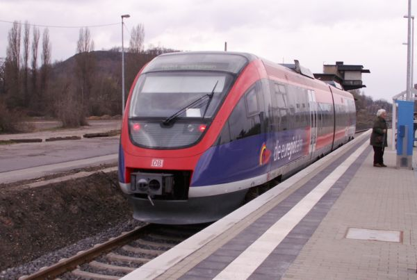 Bombardier Talent class 643.2 from the Euregiobahn on the railway line from Stolberg to Herzogenrath at the station of Alsdorf-Annapark.